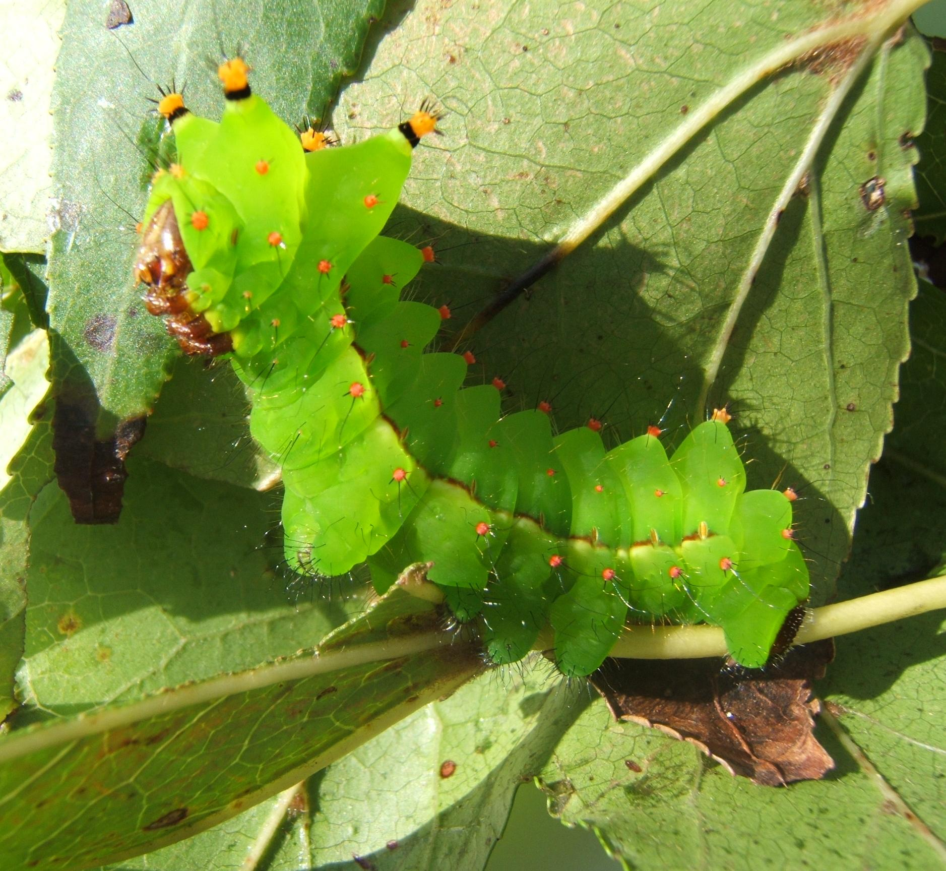 Actias selene 4th instar reared on American Sweetgum. Taken and raised by Shawn Hanrahan.